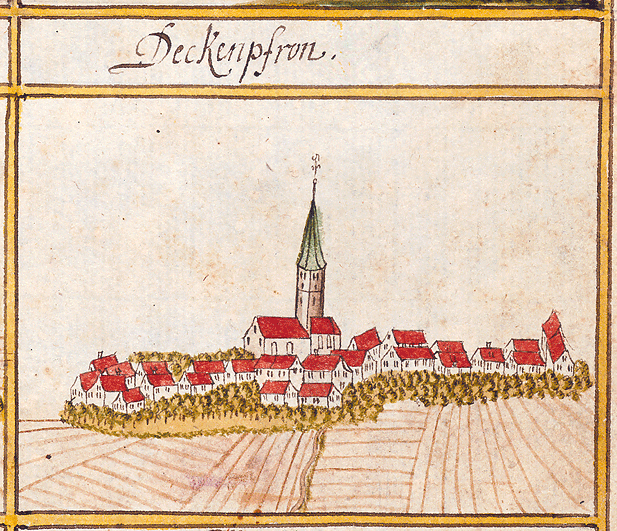 View of Deckenpfronn from the forest register books created by Andreas Kieser